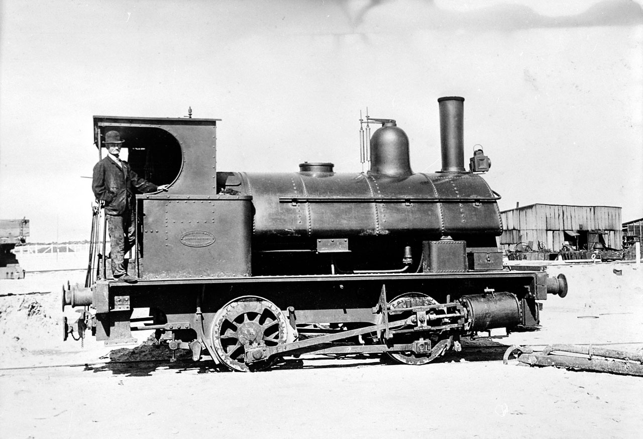 Outer Harbour - SAR I Class Locomotive (2nd) No. 161 when used on the Outer Harbour construction.